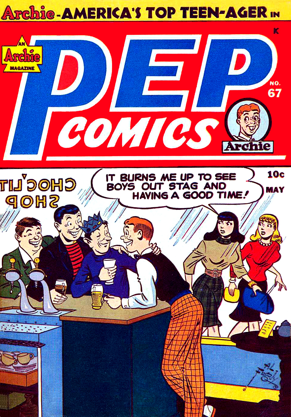 Archie Andrews and the gang on the cover of Pep number 67 (May 1948), artwork by Al Fagaly. By the late 40s, MLJ's superhero line was a fading memory and teen humor was the company's dominant genre.